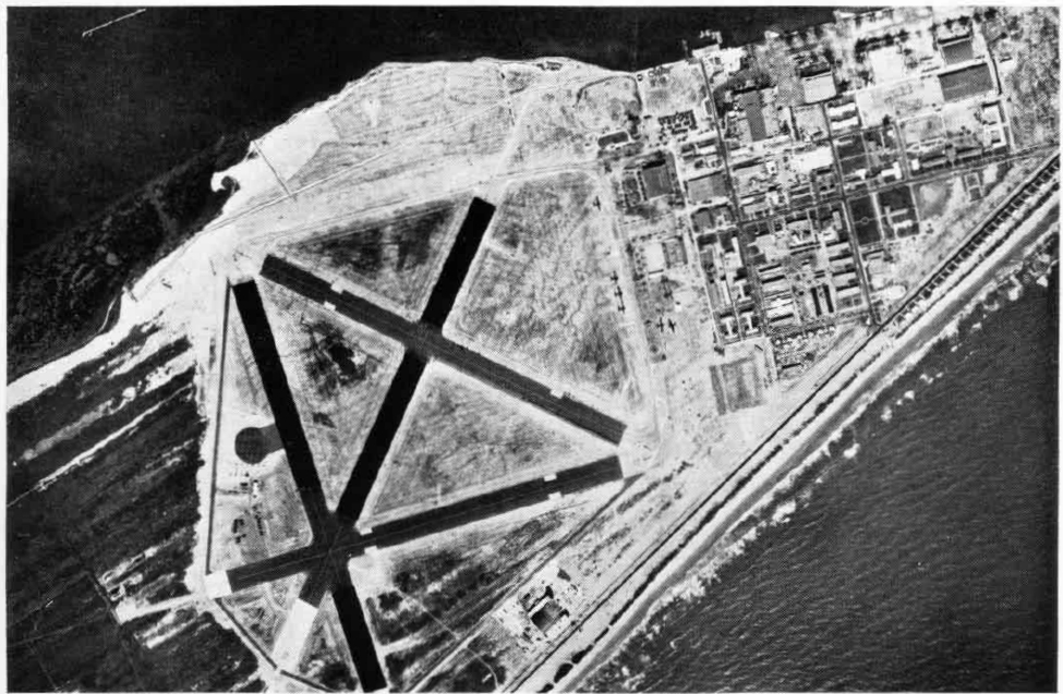 The Naval Air Station Banana River, Florida, USA, about 1946/47.